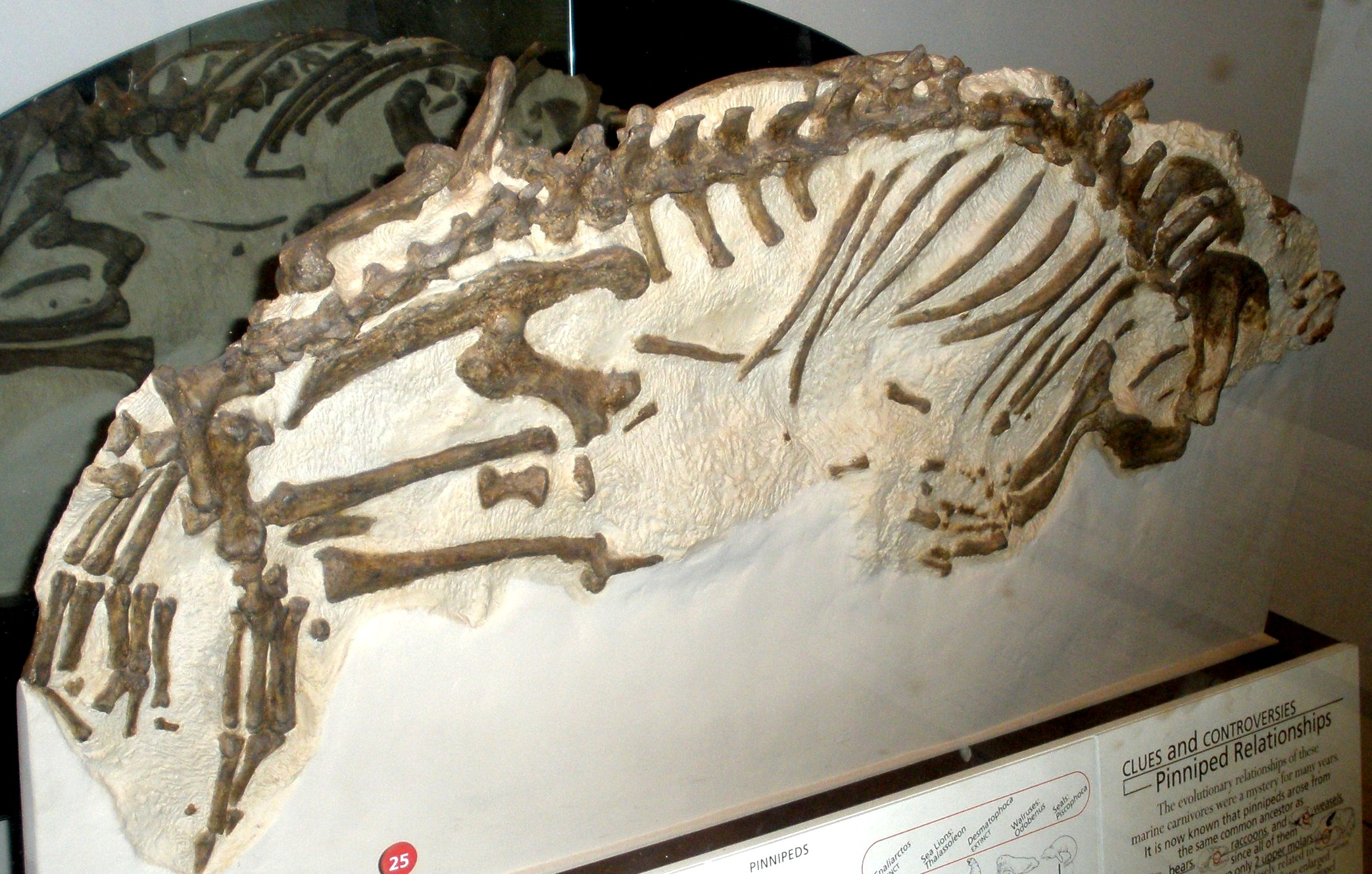 Skeleton of Enaliarctos mealsi, a fossil pinniped